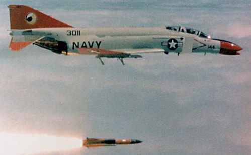 A U.S. Navy McDonnell Douglas QF-4N Phantom II (BuNo 153011) aircraft launches a MA-31 Supersonic Sea-Skimming Target missile.